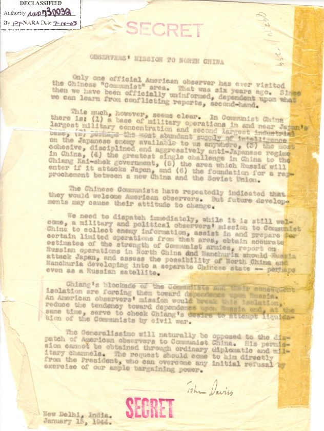 A scan of John Paton Davies's Jan 15th Memo on the formation of the Dixie Mission. Created by RebelAt from original copy at the National Archives II, at College Park, Maryland.